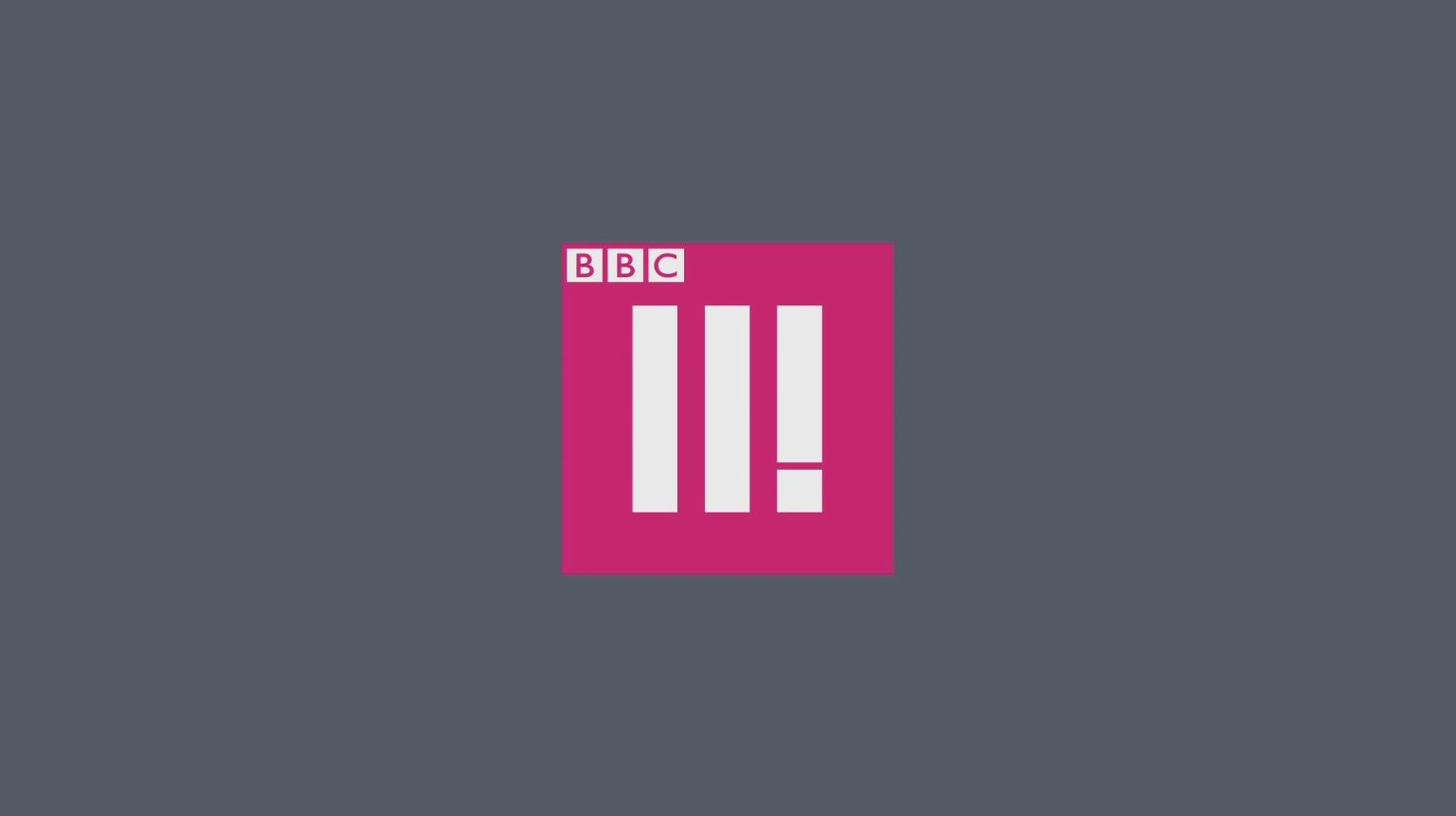 The current BBC Three ident